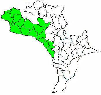 Mandals in Vijayawada revenue division (in green) of Krishna district